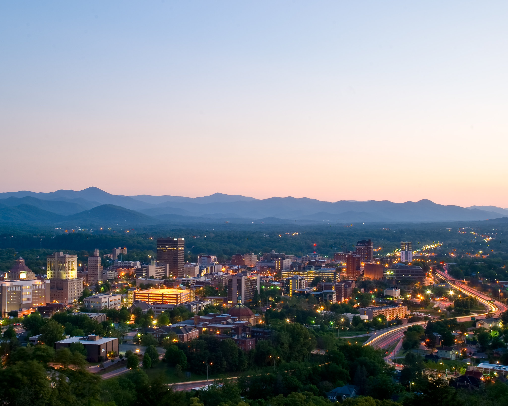 Downtown Asheville, North Carolina, at dusk